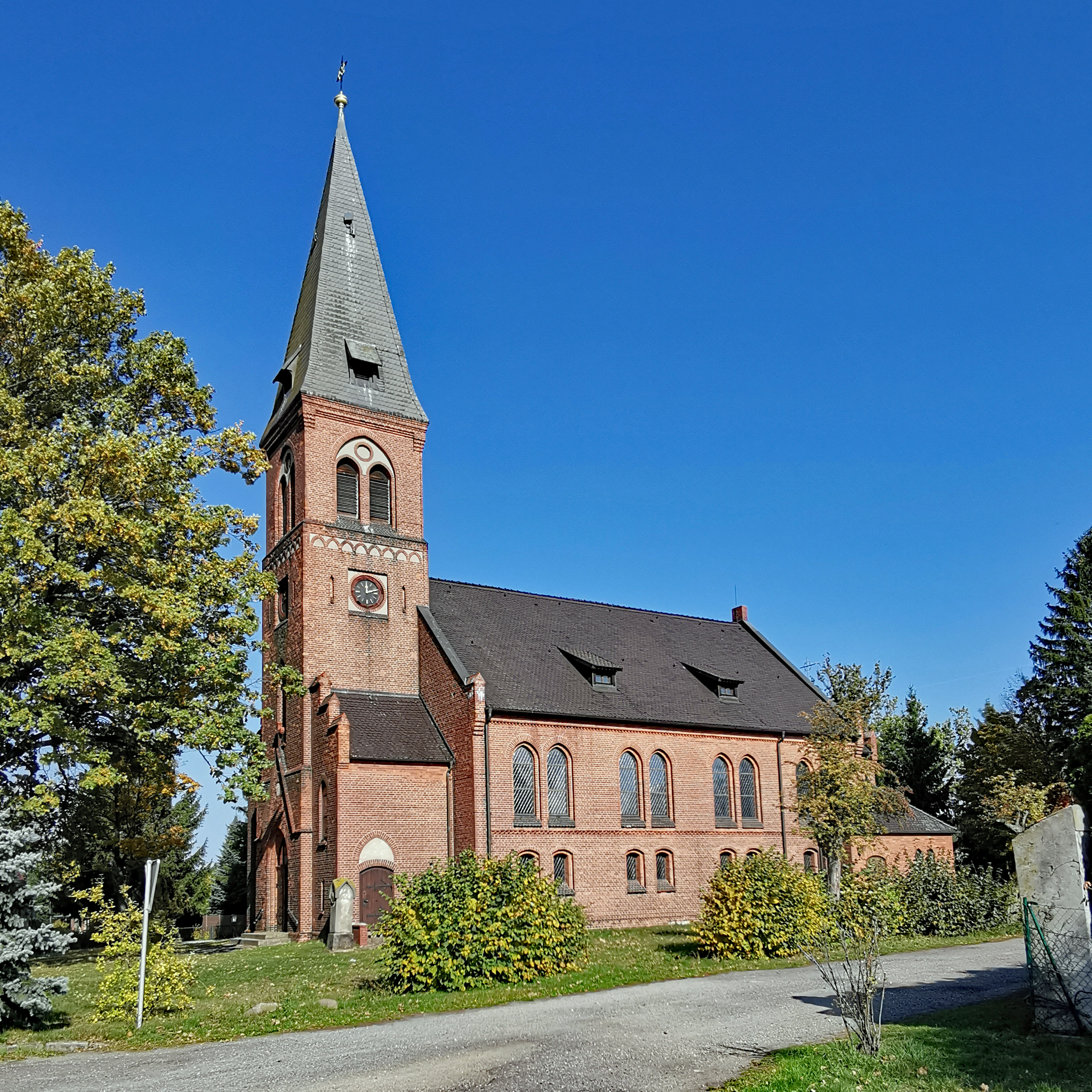 Church Groß Luja (Spremberg, Brandenburg, Germany)